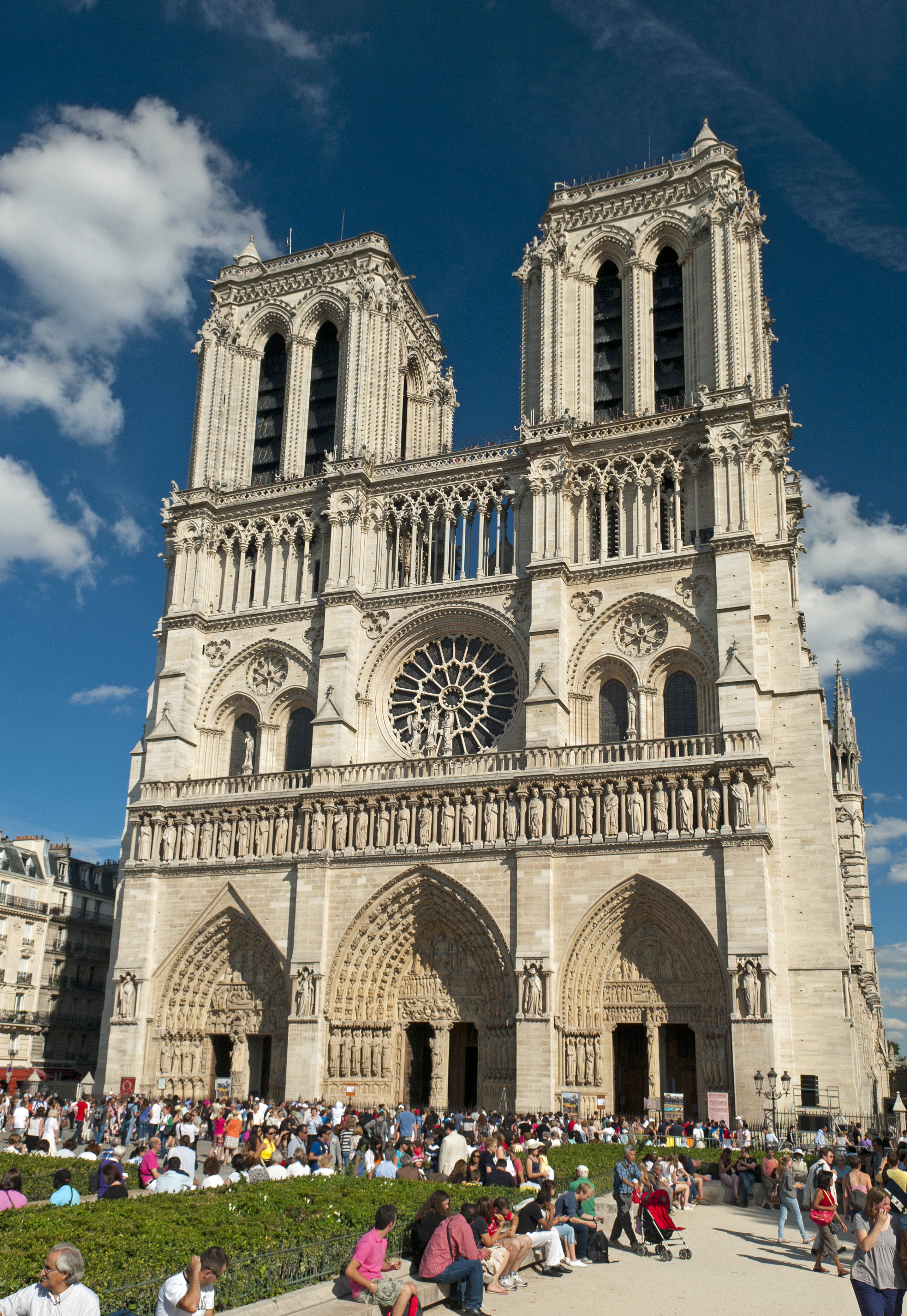 Notre Dame de Paris, also known as Notre Dame Cathedral, is a Gothic, Catholic cathedral on the eastern half of the Île de la Cité in the fourth arrondissement of Paris, France. It is the cathedral of the Catholic Archdiocese of Paris: that is, it is the church that contains the cathedra (official chair) of the Archbishop of Paris, currently André Vingt-Trois. The cathedral treasury houses a reliquary with the purported Crown of Thorns.